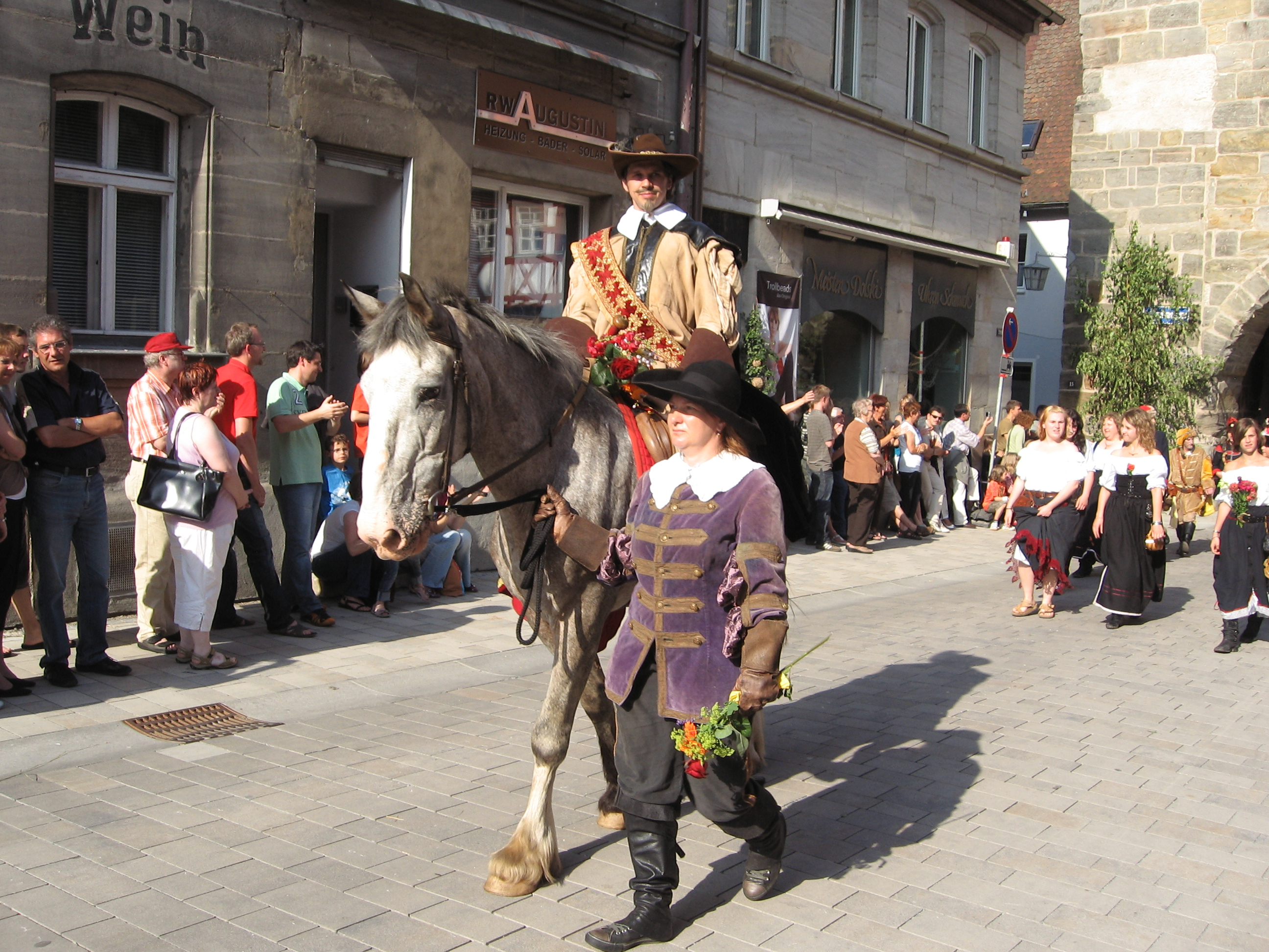 Festzug der Altdorfer Wallensteinfestspiele (erster Festzug der Saison). Personality rights warning Although this work is freely licensed or in the public domain, the person(s) shown may have rights that legally restrict certain re-uses unless those depicted consent to such uses. In these cases, a model release or other evidence of consent could protect you from infringement claims.